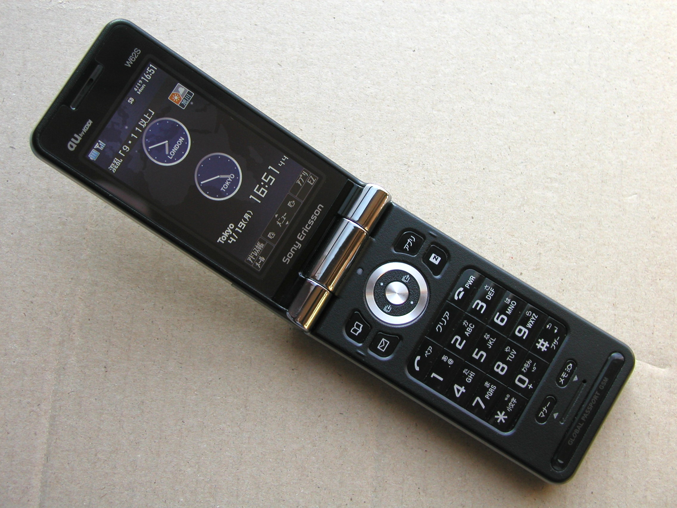 au W62S mobile phone by Sony Ericsson, Silver-Leather, opened